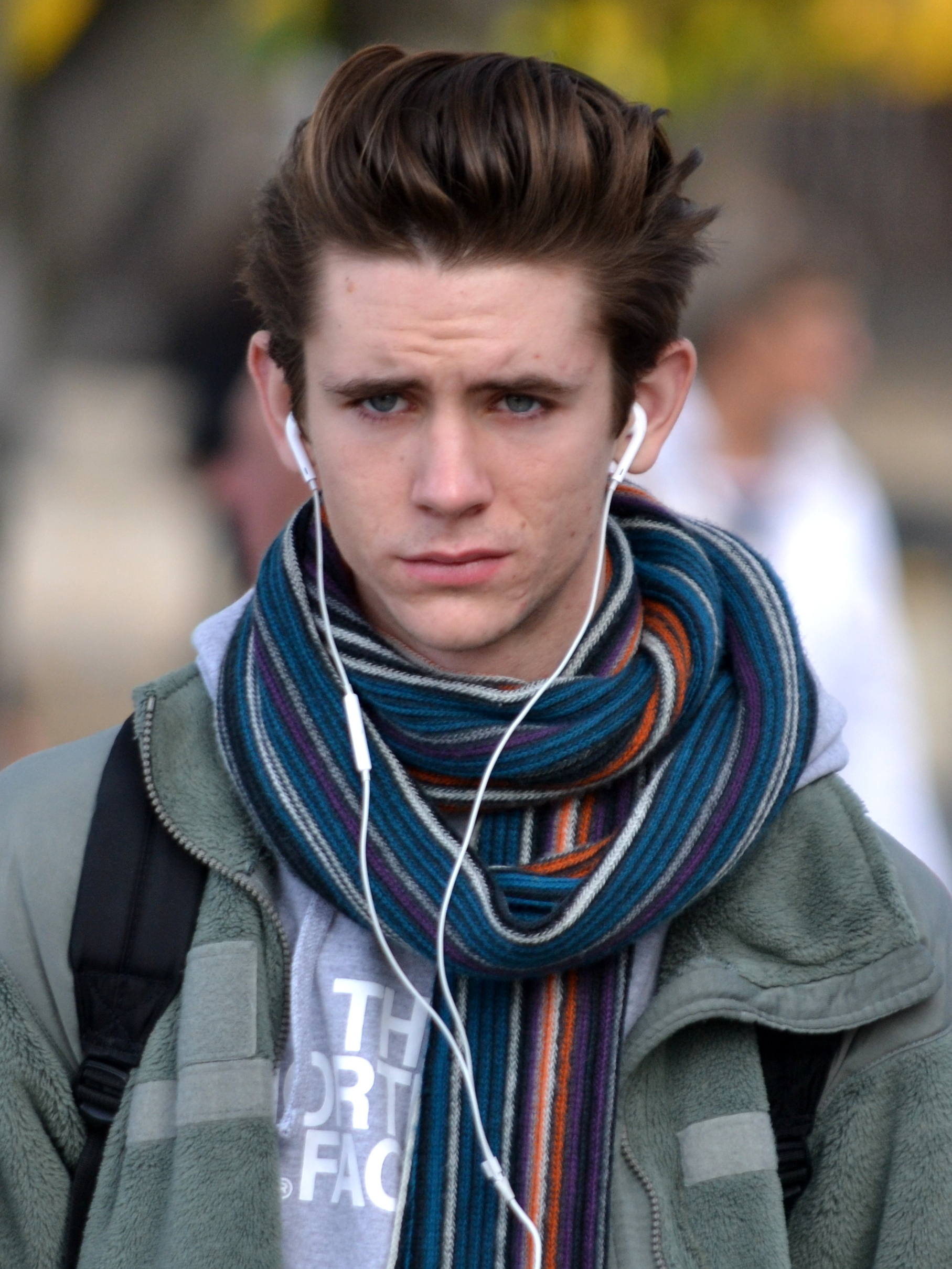 Jan Komínek, Czech actor